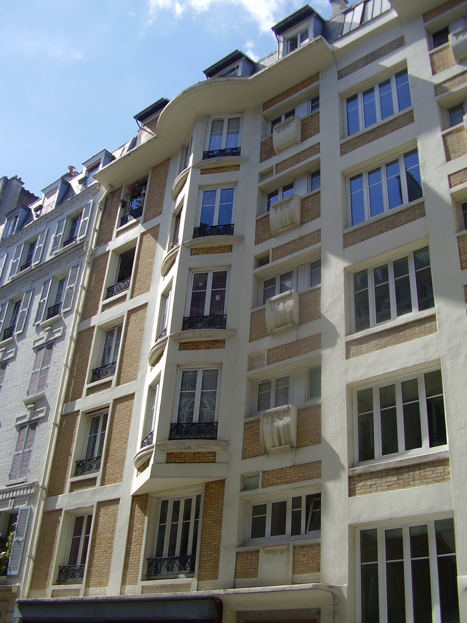 Building 7 rue Trétaigne (Paris, 18th arrondissement) , built by Henri Sauvage in 1903.